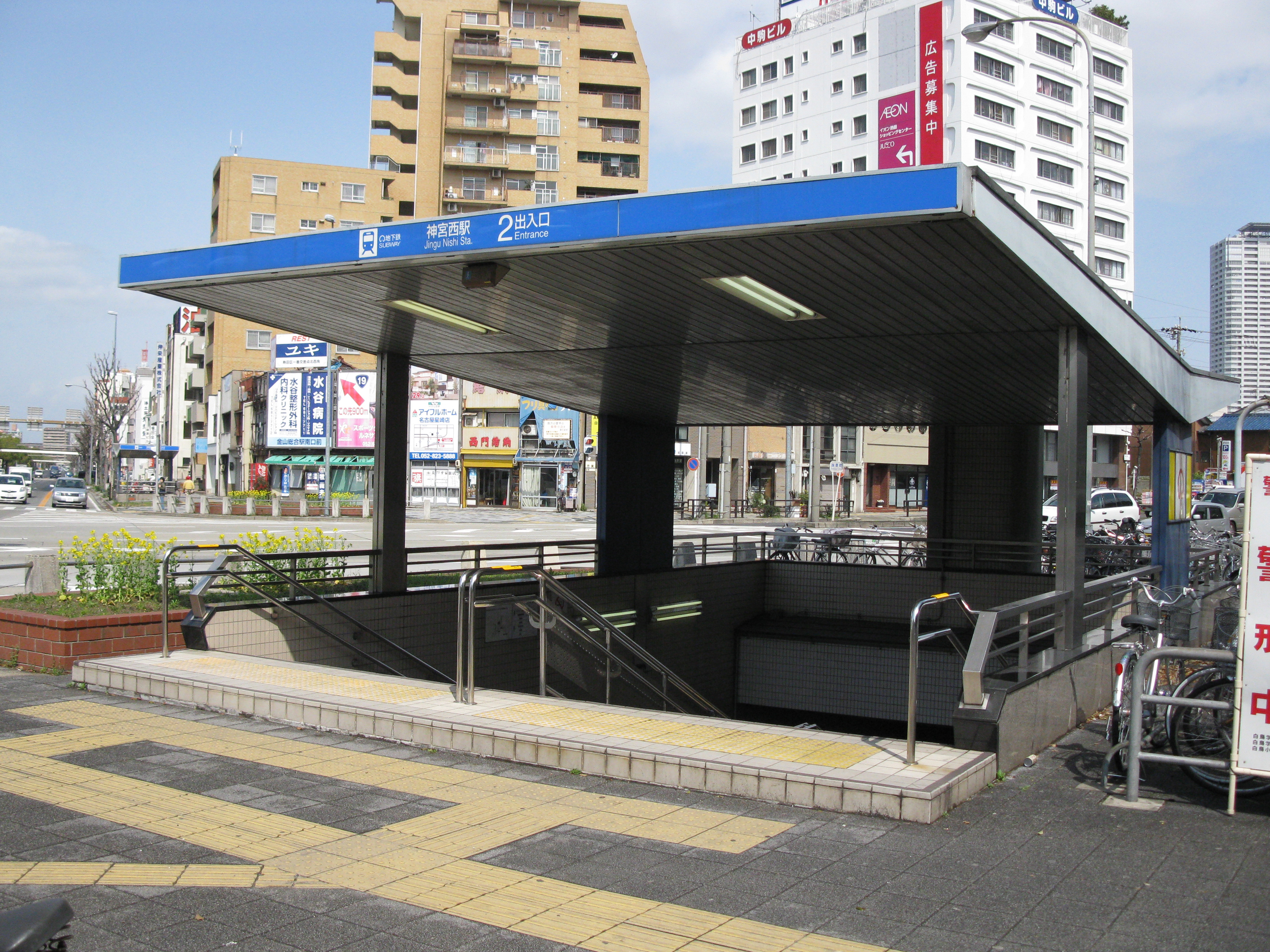 Jingū-Nishi Station no.2 entrance (Nagoya Municipal Subway Meijō Line)